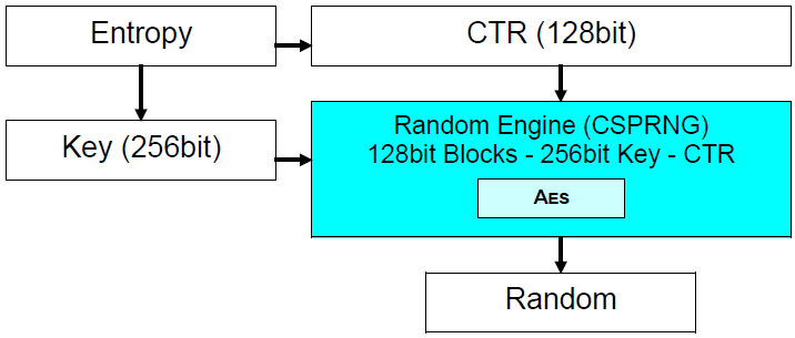 OpenPuff v3.30 Architecture - 6